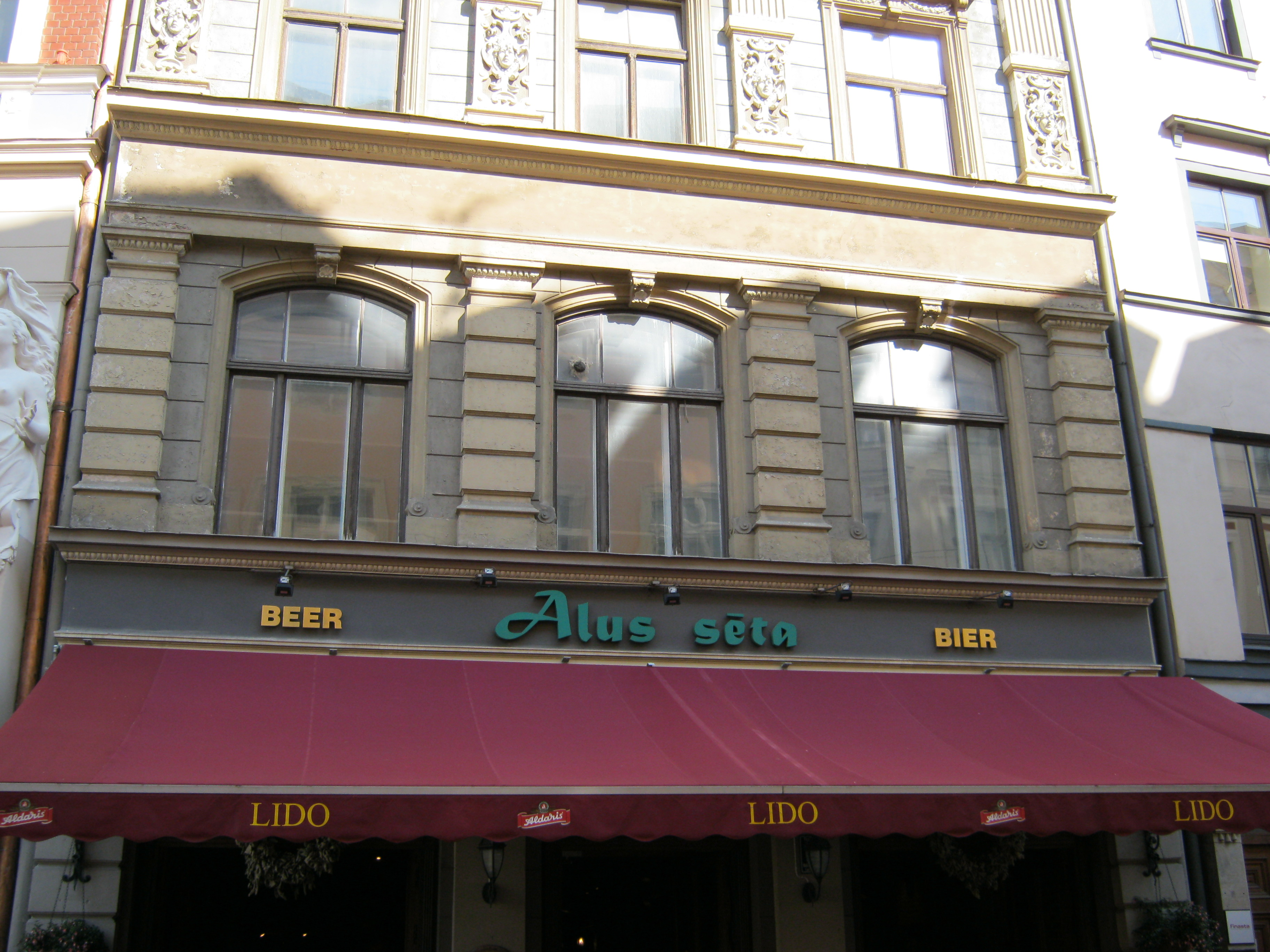 Lido Restaurant in Riga, Latvia